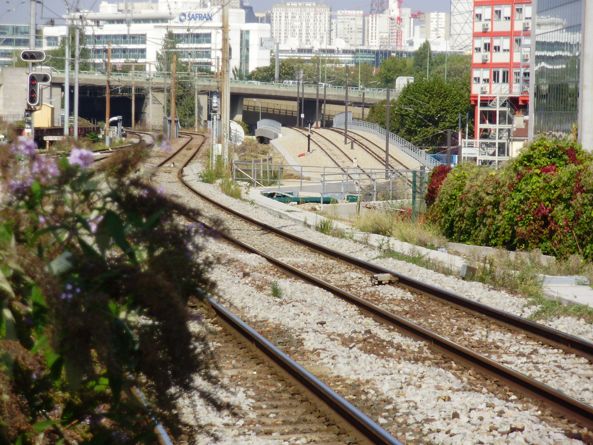 Railroads of lines RER-C and T2 in the North of the station of Issy - Val de Seine